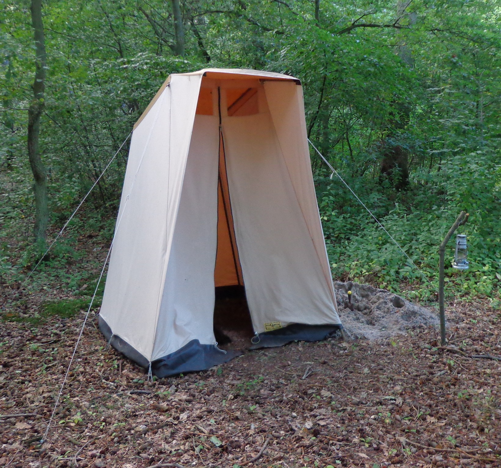 Hudo: a primitive camp toilet